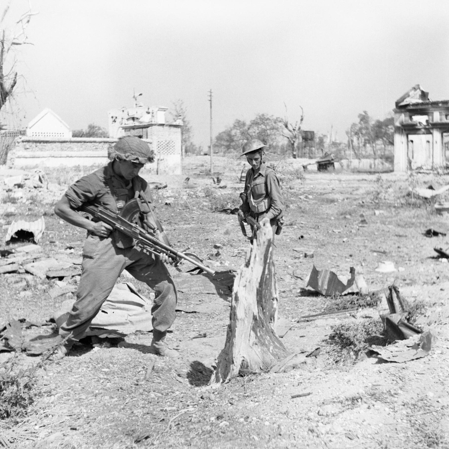 Troops of the West Yorkshire Regiment warily search Japanese dugouts in Meiktila, Burma, 28 February 1945. Troops of the West Yorkshire Regiment warily search Japanese dugouts in Meiktila, 28 February 1945.